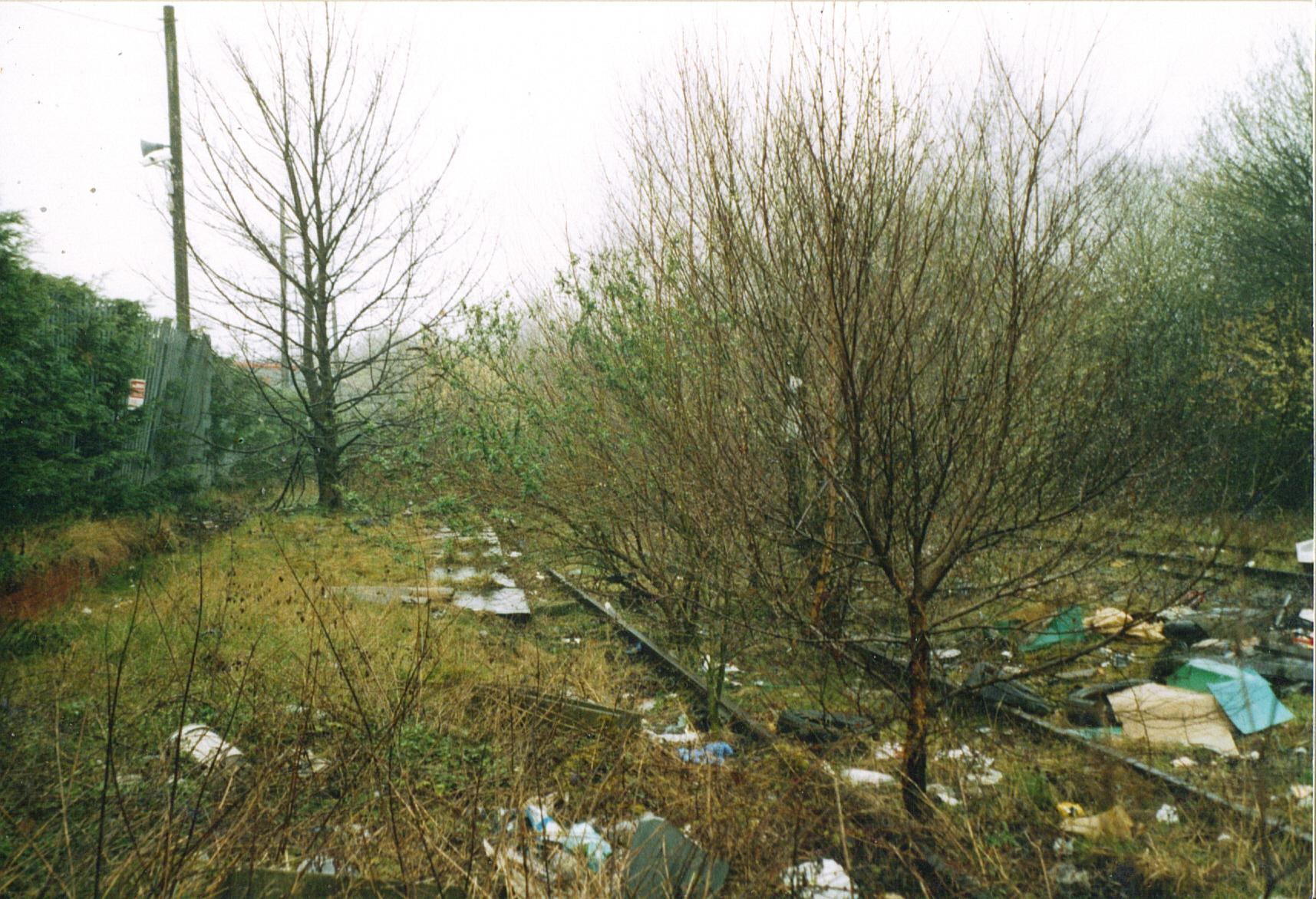 A picture I took of Wednesbury Town railway station in 2003.